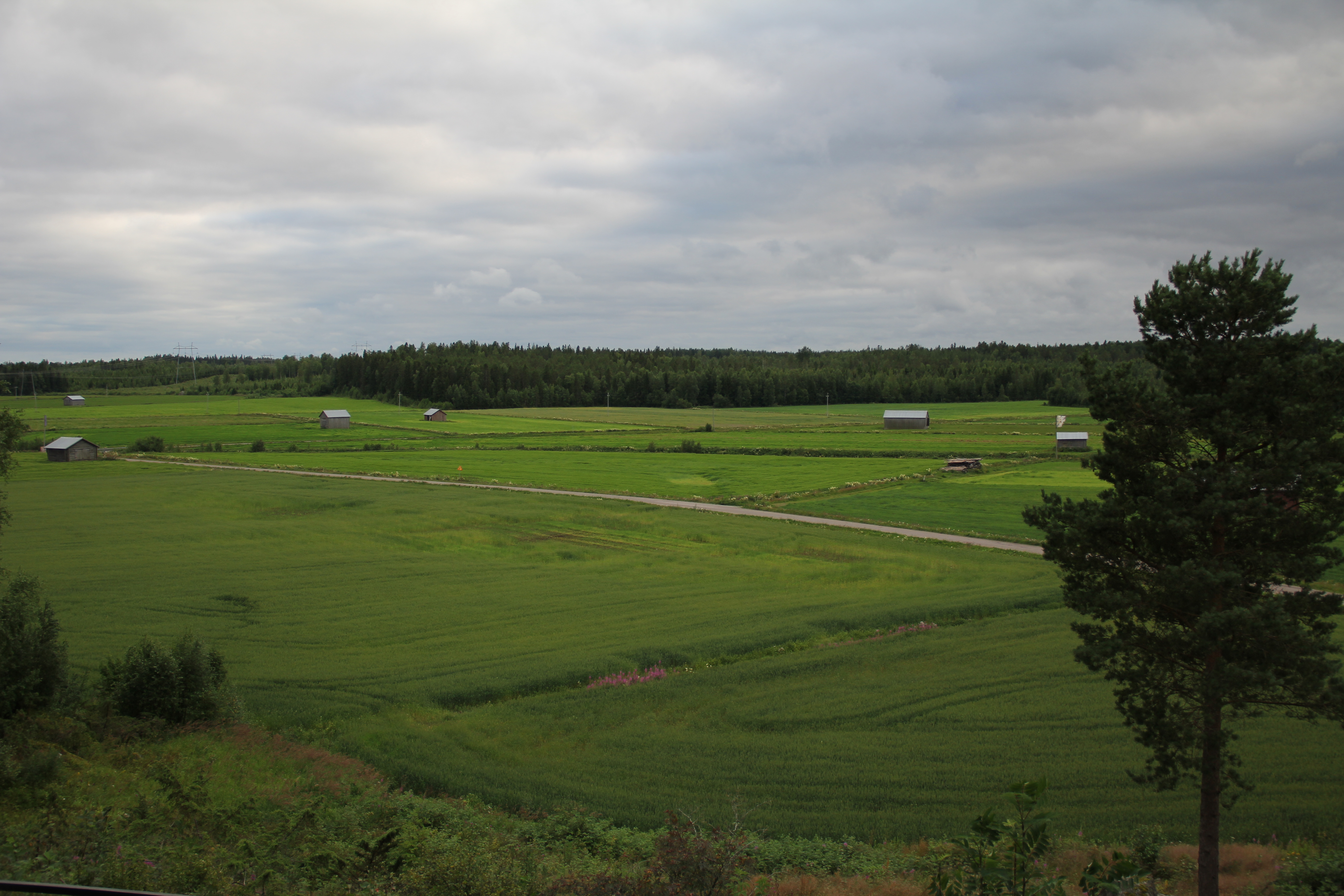 Taistelutantereentie, Oravainen, Vöyri, Finland. -View to the museum road.